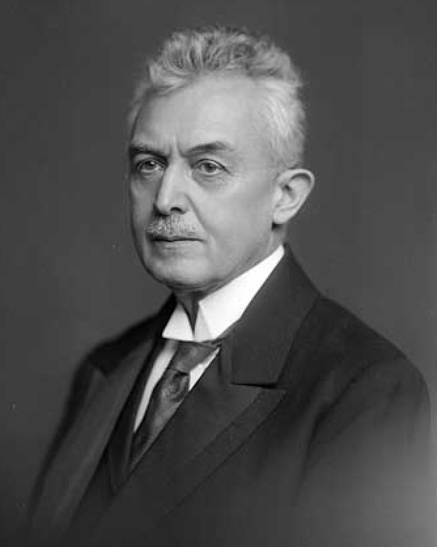 JUDr. Alois Stompfe (1868-1944). Czech lawyer.